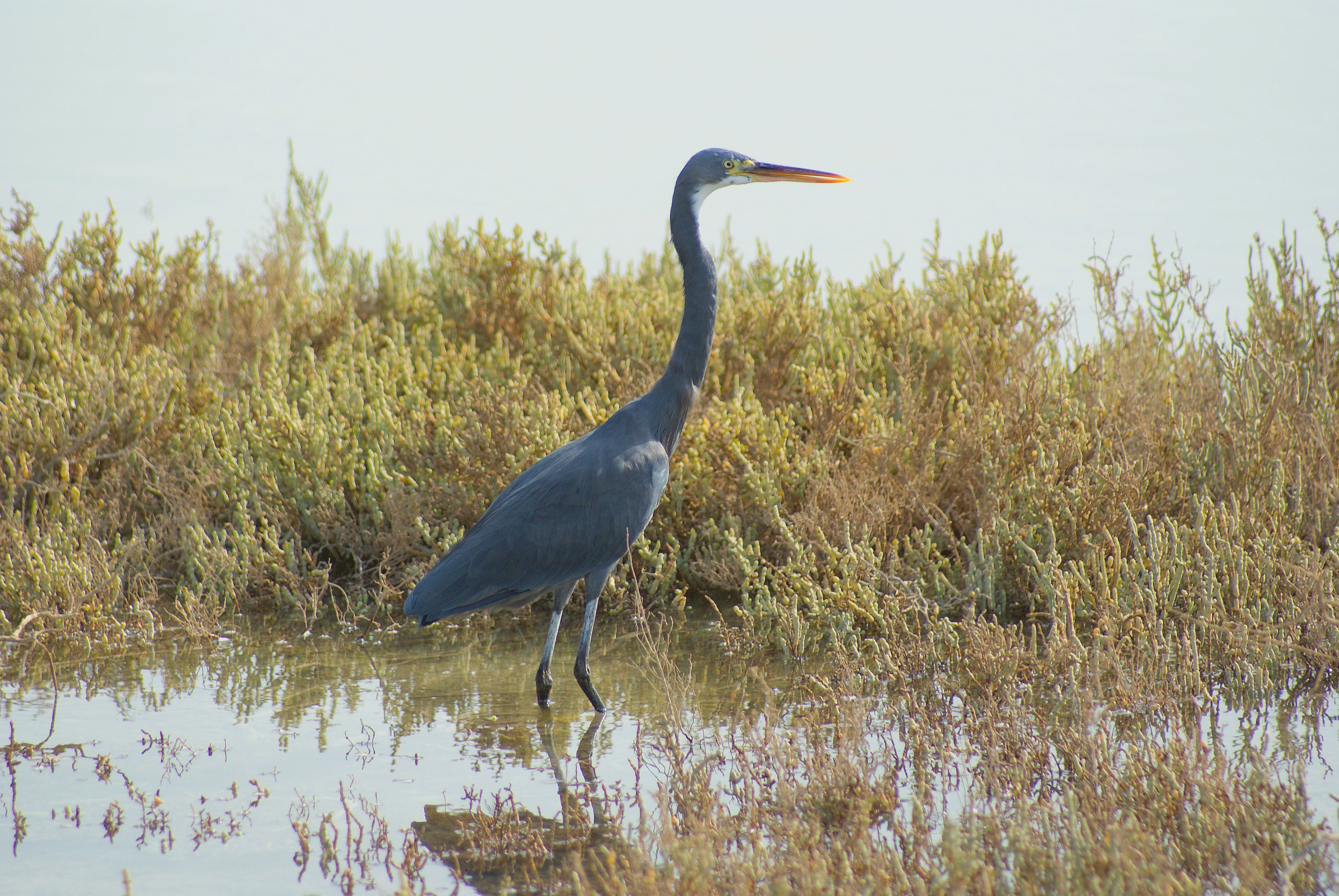 Western Reef Heron in the mangroves of Yas Island.